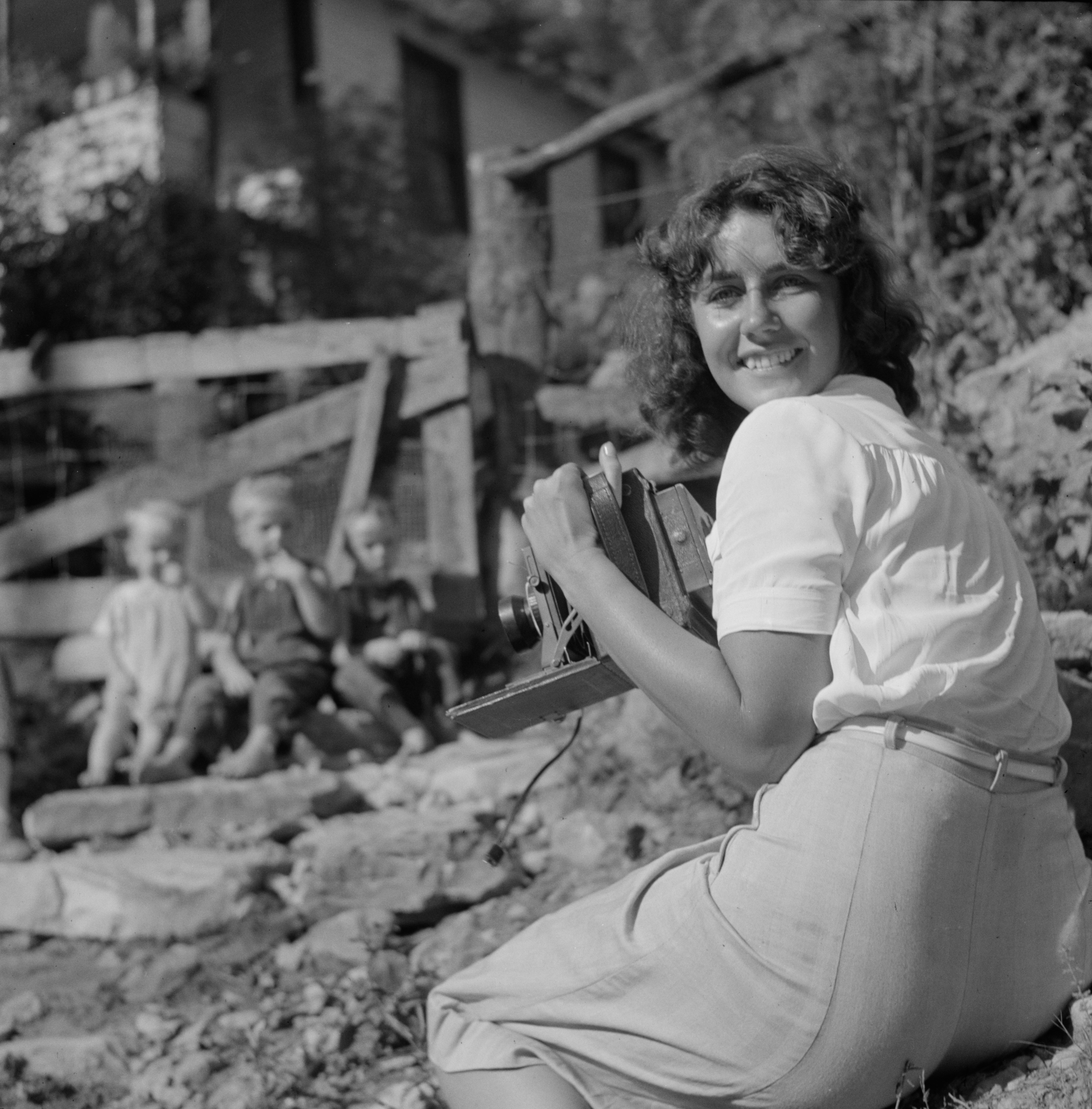 Marion Post photographing mountain children on stone steps of their home. Up Stinking Creek, Pine Mountain, Kentucky